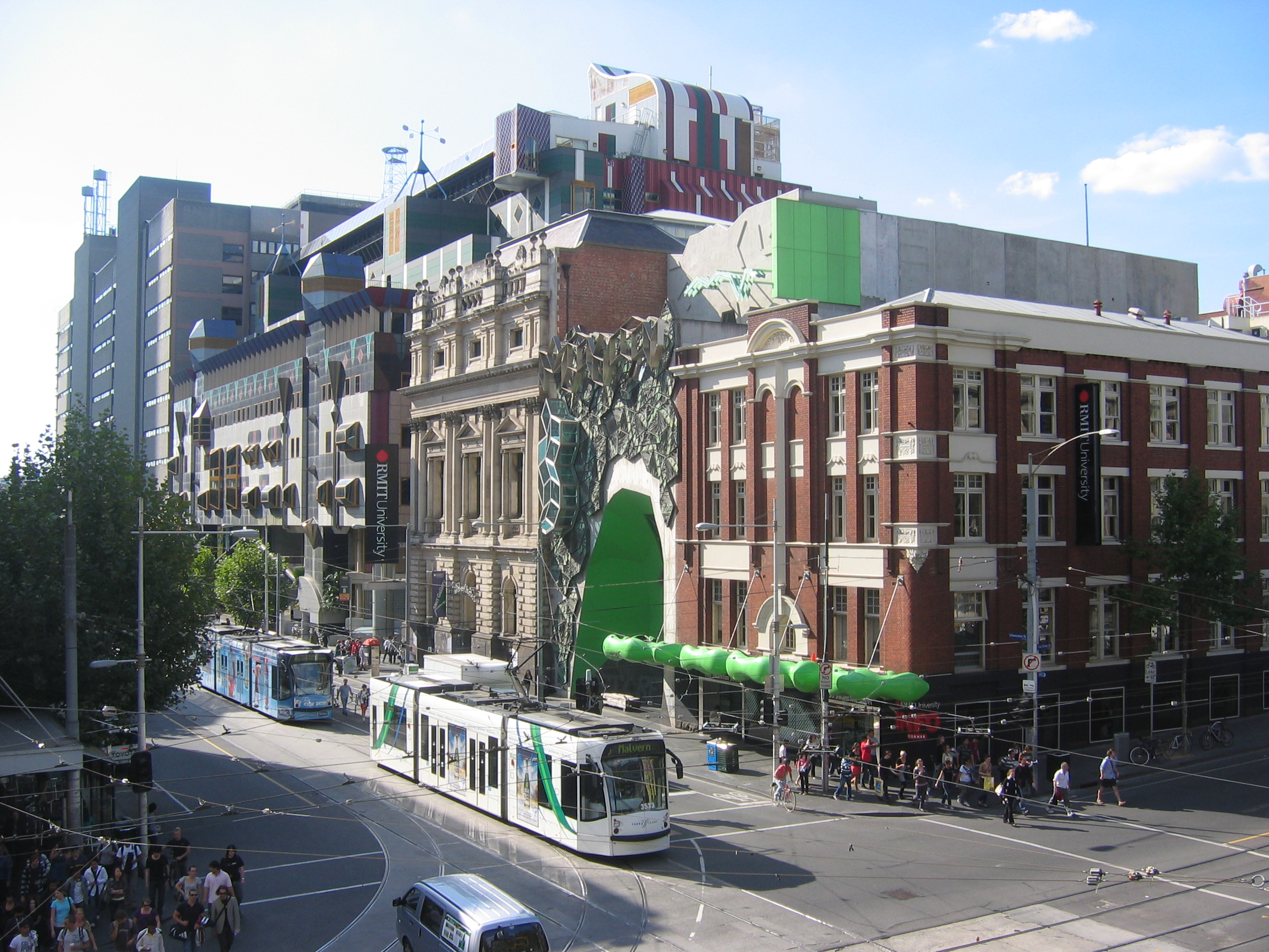 RMIT City Campus, Buildings 22, 16, 8, 10, 12, 14.